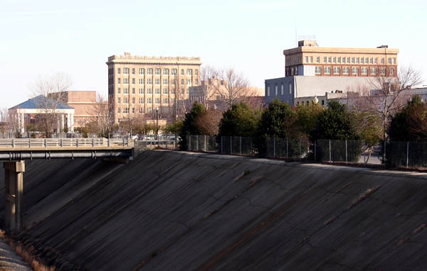 Downtown Gastonia, North Carolina